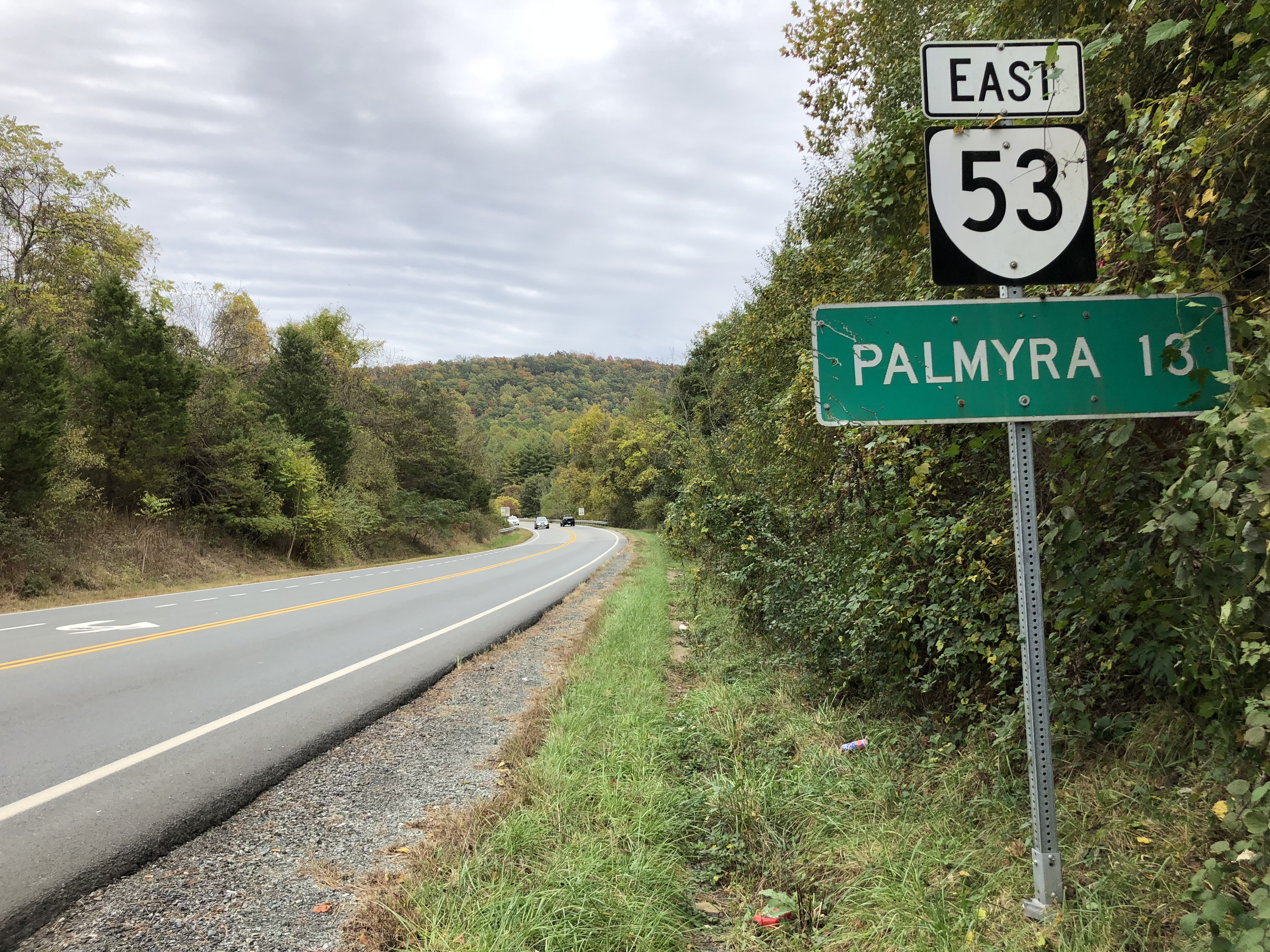 View east along Virginia State Route 53 (Thomas Jefferson Parkway) just east of Virginia State Route 20 (Scottsville Road) and just south of Charlottesville in Albemarle County, Virginia